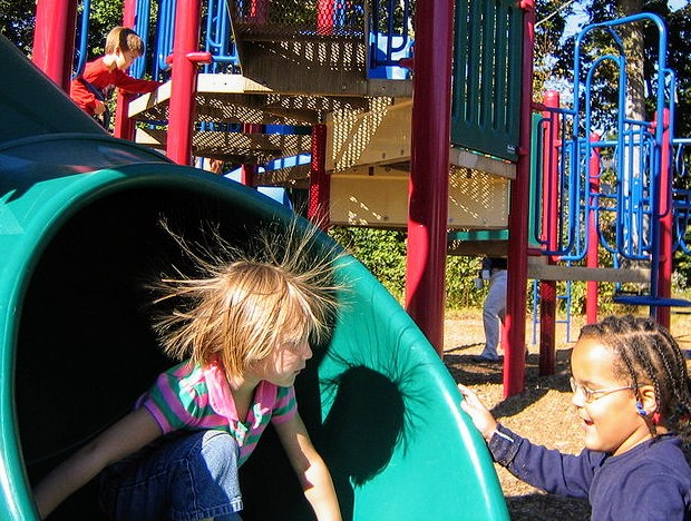 Playing on the slide, "What's going on with your hair"?